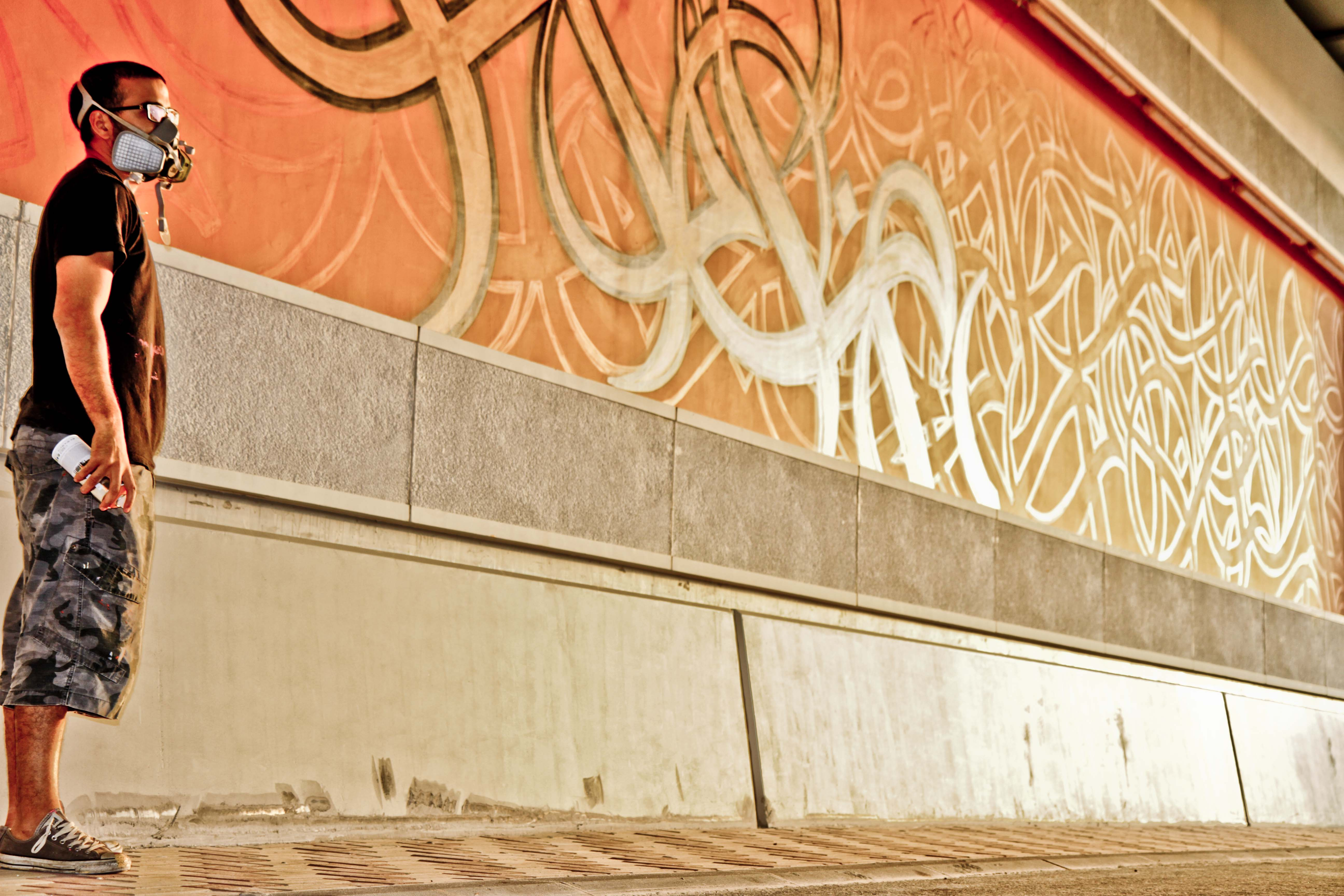 Pictures from the Salwa Road Project, Doha, Qatar